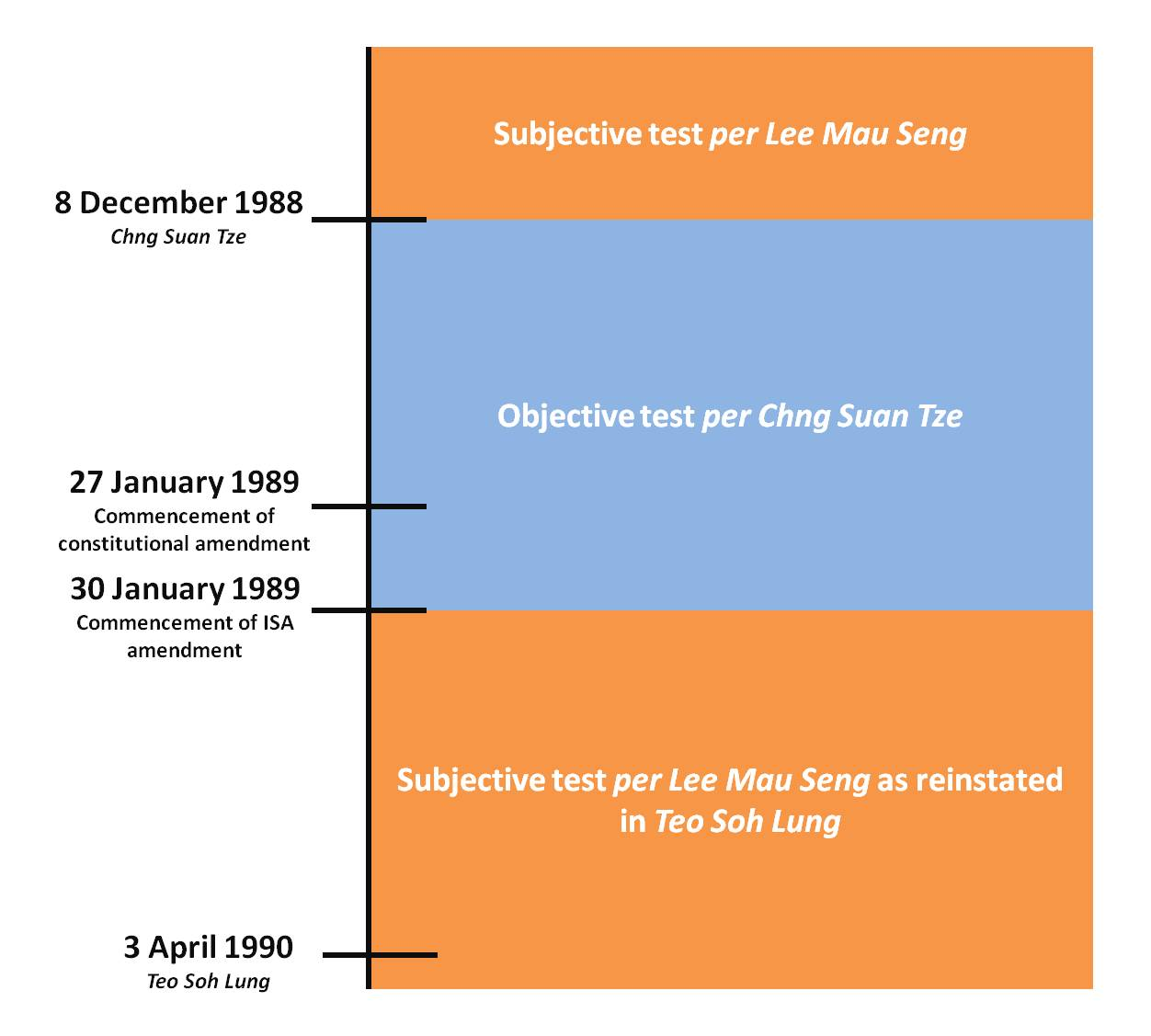 A timeline of court judgments and legislation relating to the Internal Security Act (Cap. 143, 1985 Rev. Ed., Singapore).